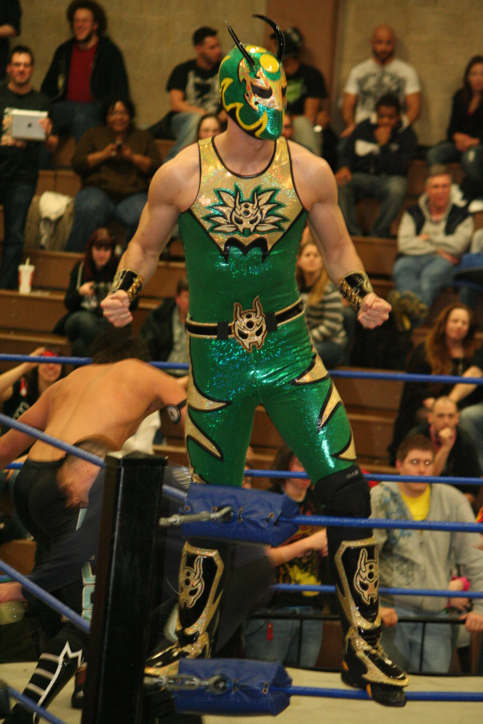 Wrestler Green Ant